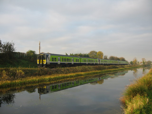 Railcar departing Broombridge Railcar running along side the Royal Canal heading towards Ashtown, Dublin.